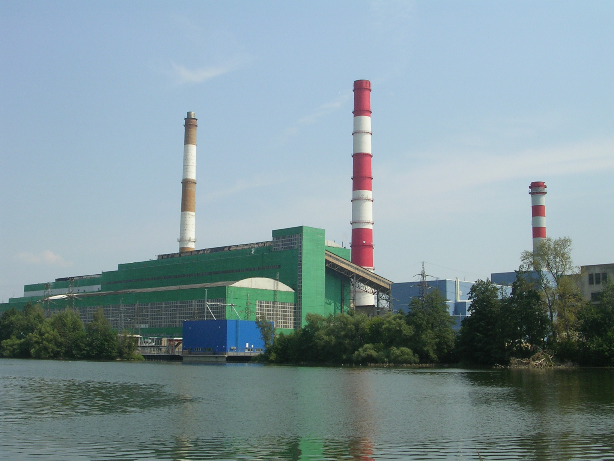 Shatura steam power plant buildings. Summer 2010 photo.